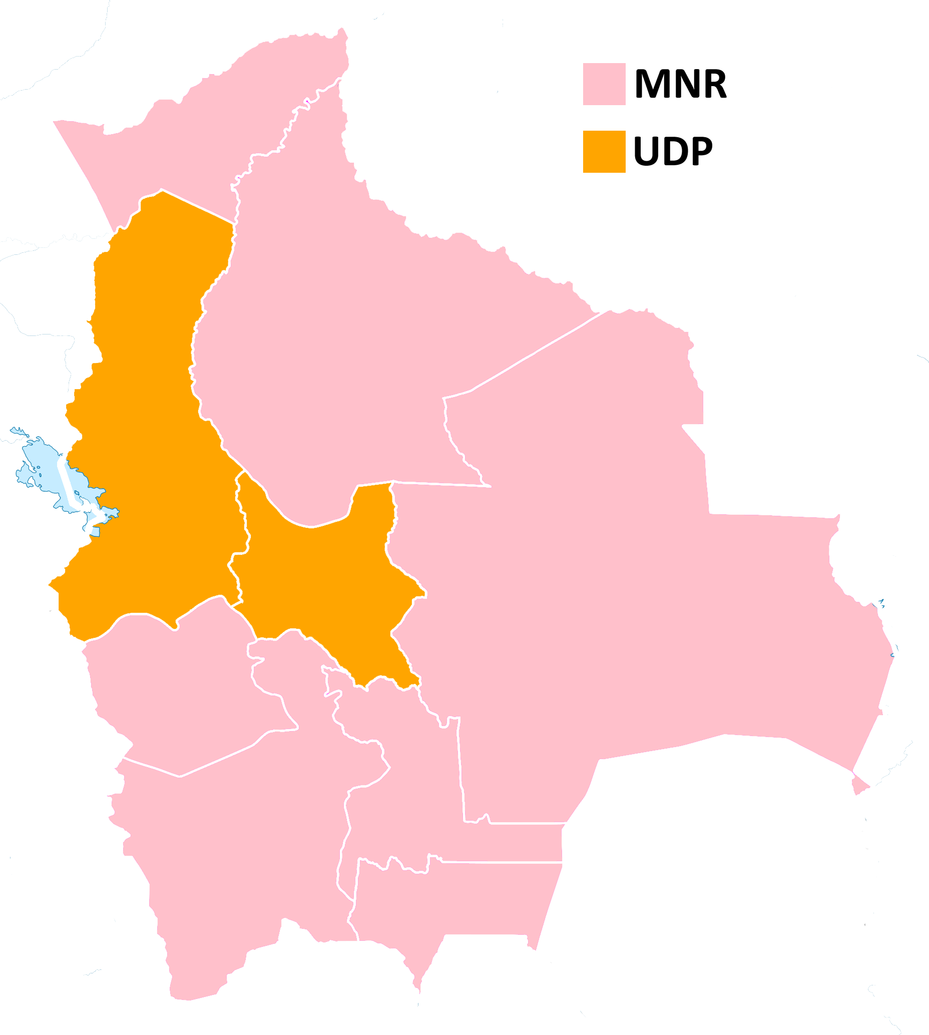 1979 Bolivian elections map